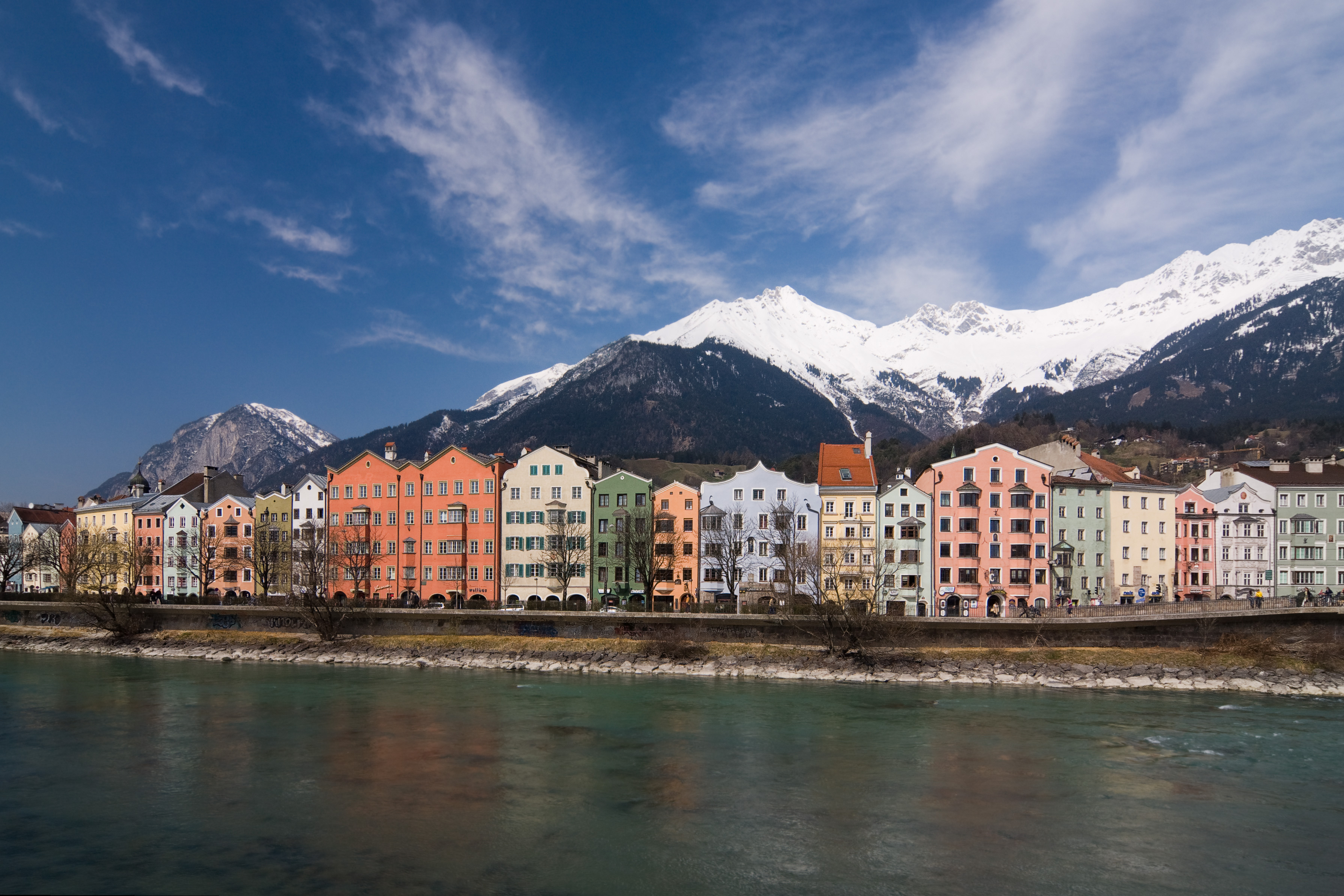 in Innsbruck.